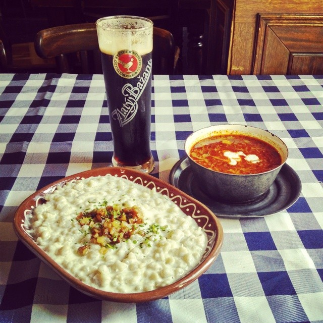 halušky, kapustnica and a dark zlatý bažant beer - example of slovak cuisineSlovenčina: halušky, kapustnica a zlatý bažant tmavé pivo - ukážka slovenskej kuchyne